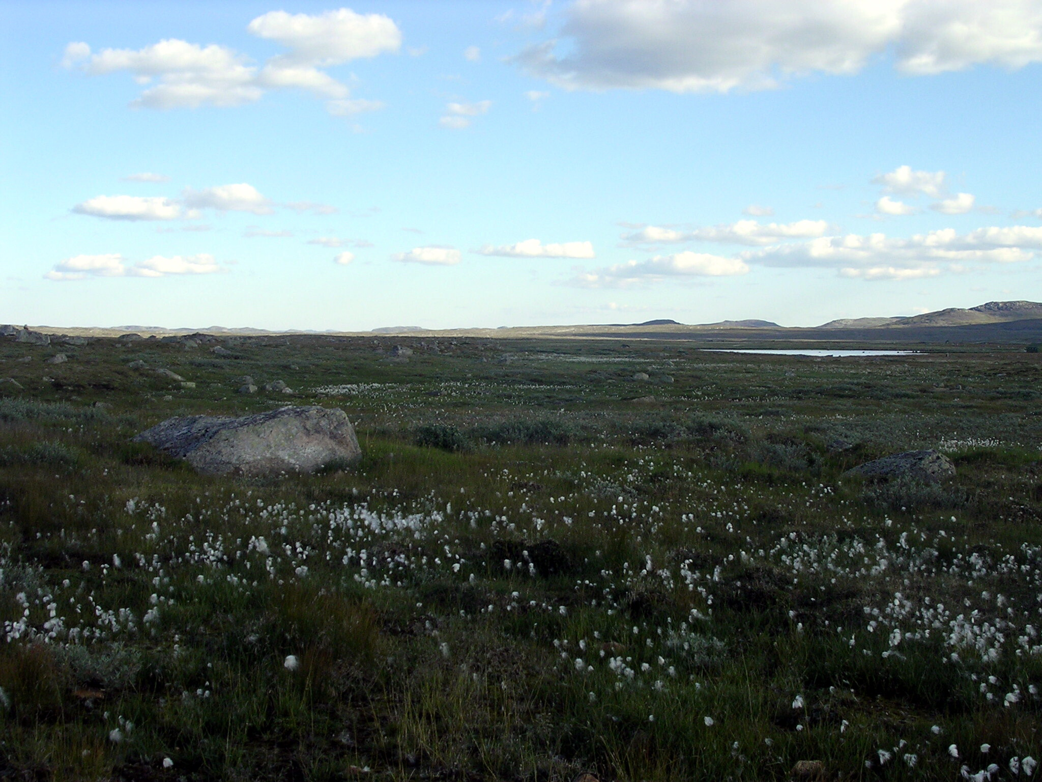 Flat plains on Hardangervidda, Norway. Near the cottage Sandhaug. Looking to east.